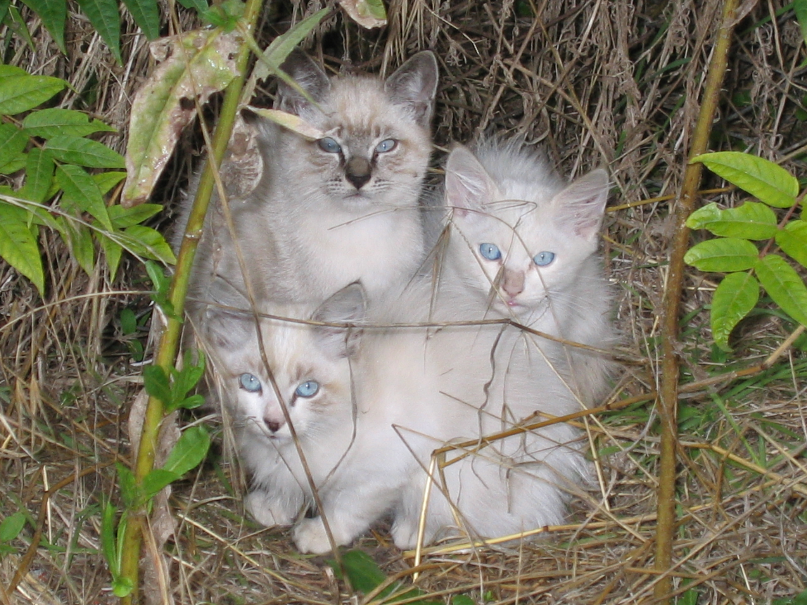 Three crossbreed cats. They are three months old brothers. The picture has been taken in Rome (cat city), near Valle dell'Insugherata, a natural wild park that shares its borders with the city.